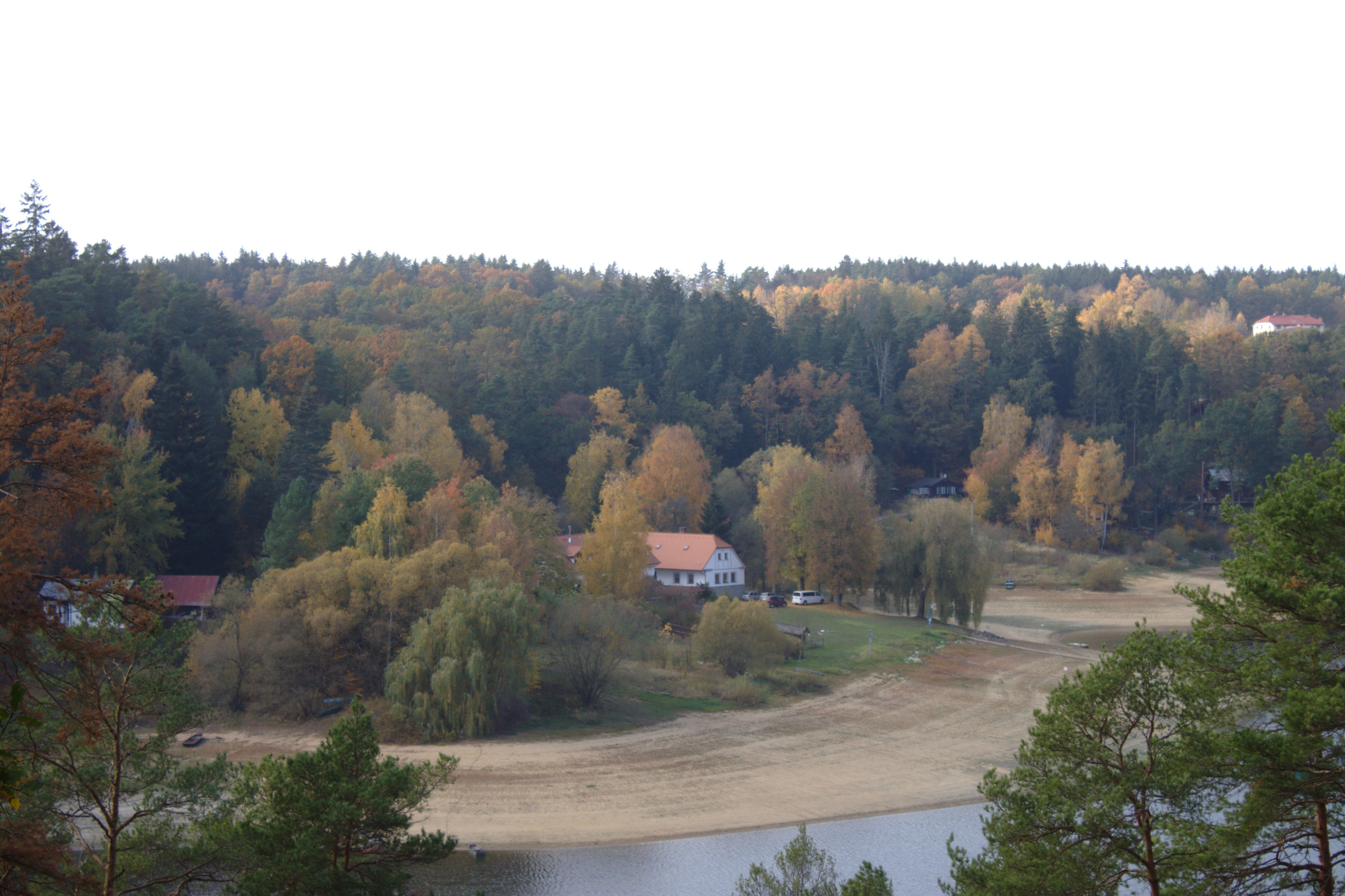 Štědronín seen from Svatá Anna/St. Anne settlement near Zvíkov, CZ